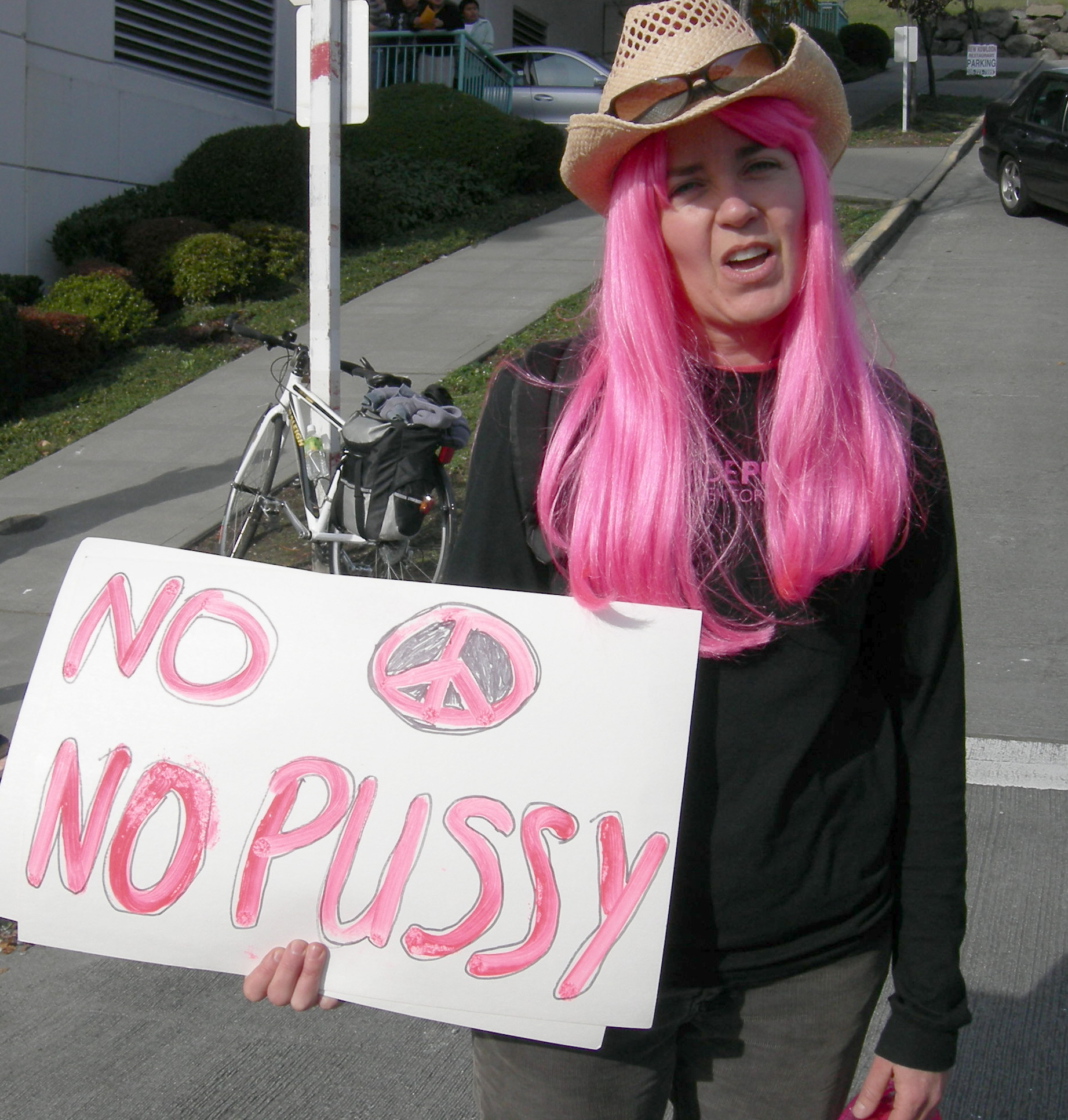 Anti-war march coming through the International District, Seattle, Washington, 27 October 2007.